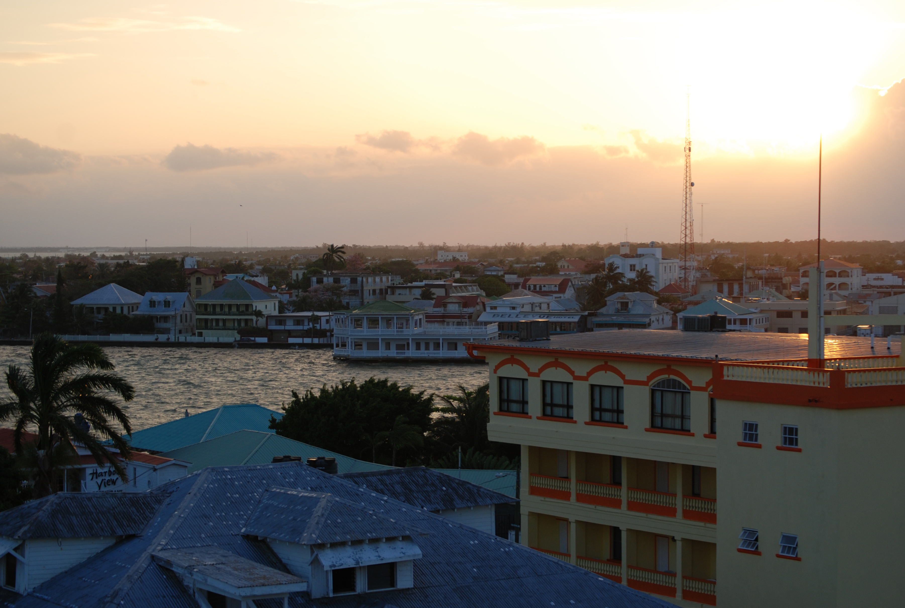 View of Belize City, Belize from the North Side.